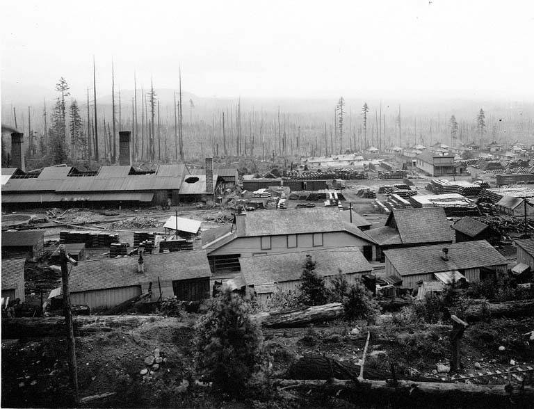 Section of 2-part panorama: Curtis 19546, 19547. Shows exterior of buildings, railroad tracks and yard. Subjects (LCTGM): Industrial facilities--Washington (State)--Taylor; Panoramic photographs--Washington (State)--Taylor Subjects (LCSH): Denny Renton Clay and Coal Company